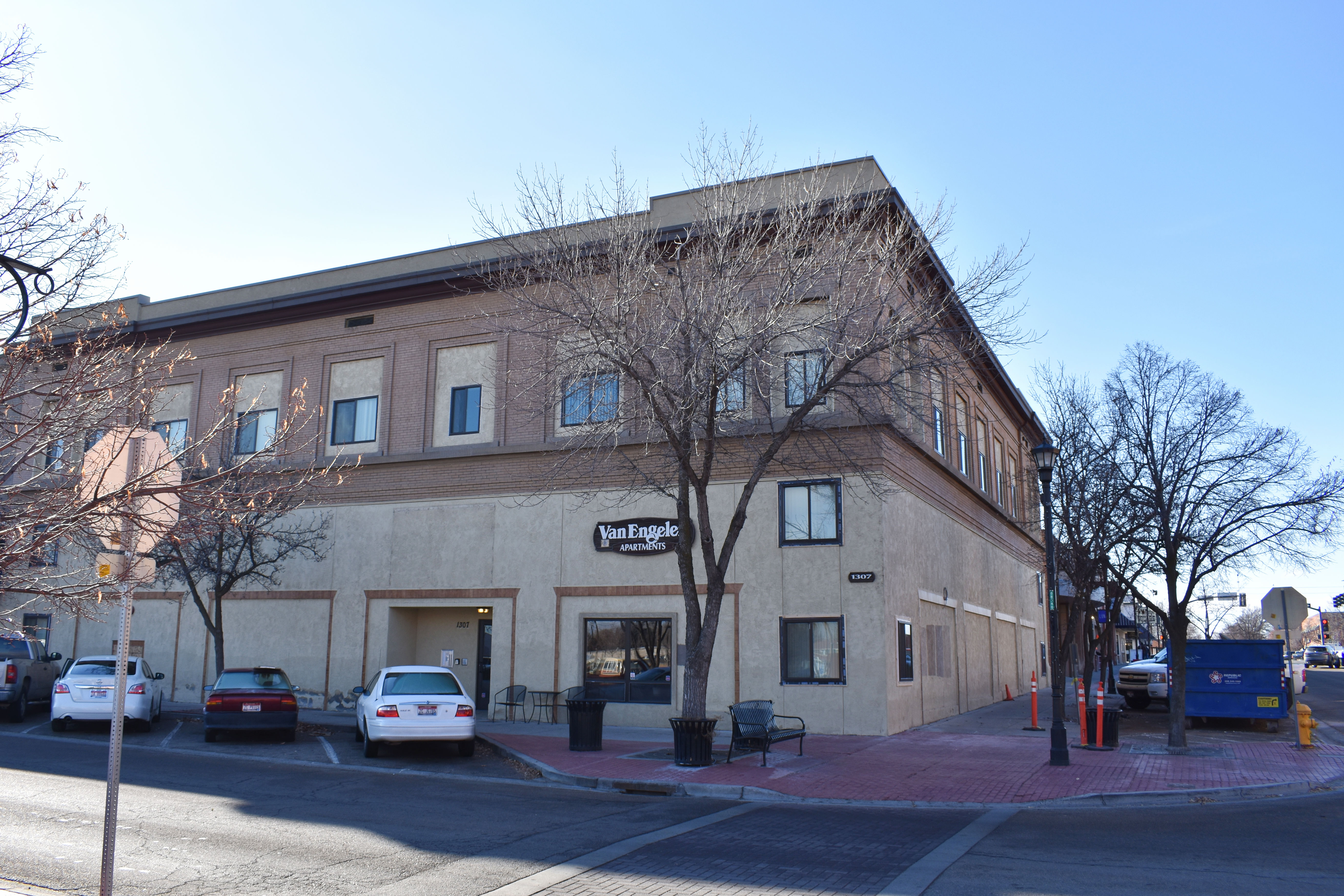 The Nampa Department Store (1910) is listed on the National Register of Historic Places.